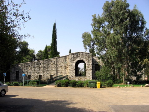 Osishkin house